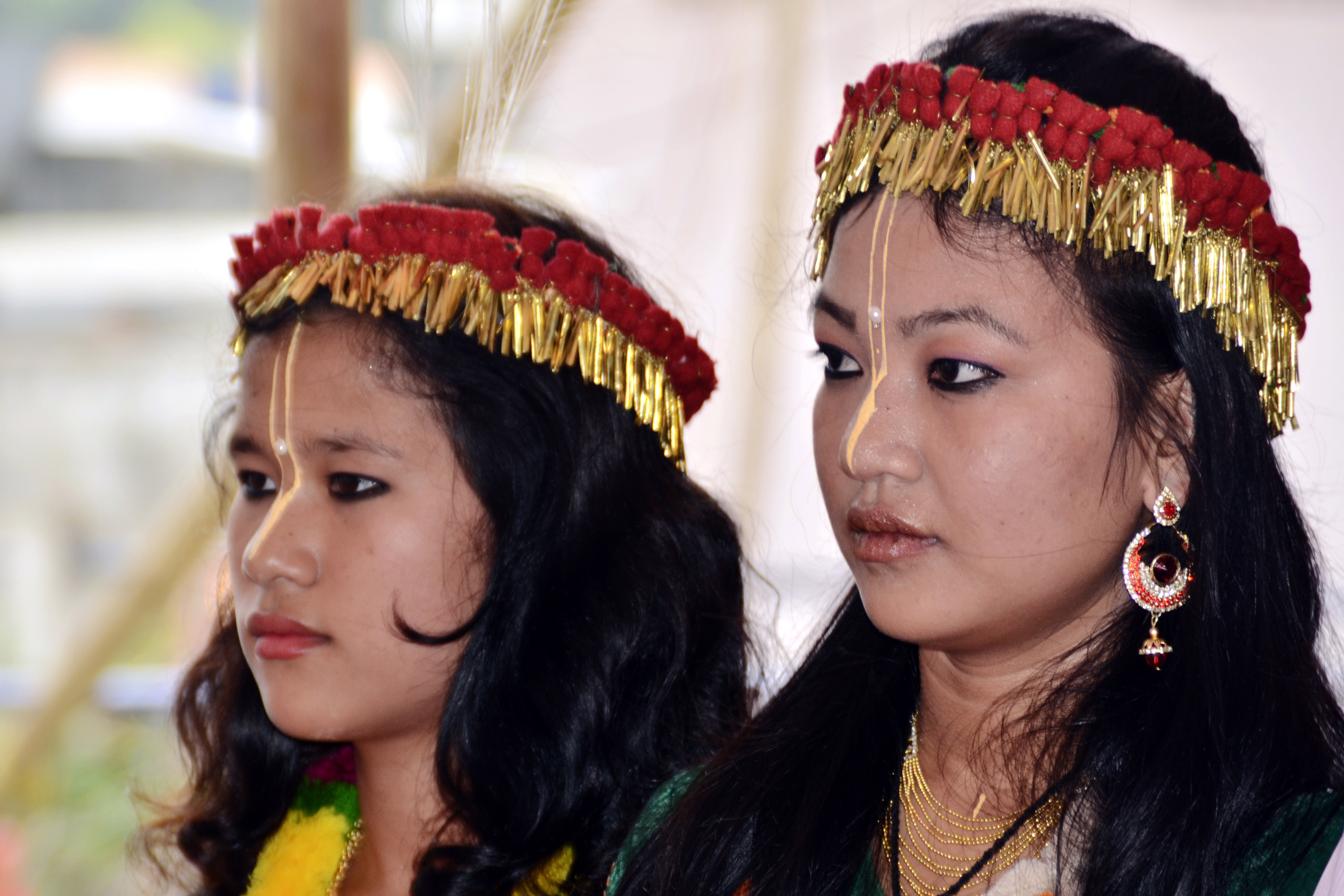 Manipuri girls in their traditional attire